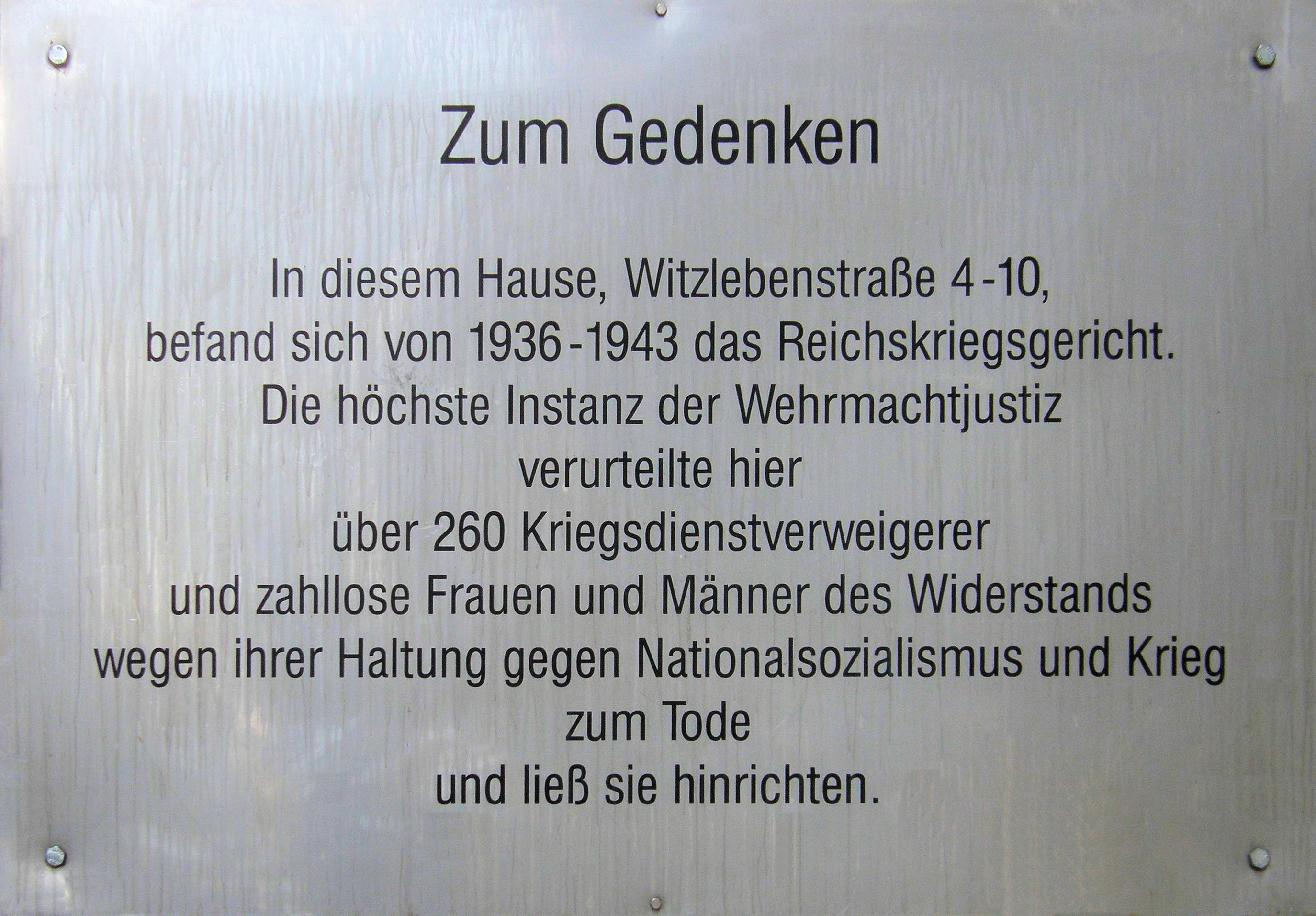 Memorial plaque, Reichskriegsgericht, Witzlebenstraße 4, Berlin-Charlottenburg, Germany Koordinate:52°30′35″N 13°17′41″E / 52.50972°N 13.29472°E